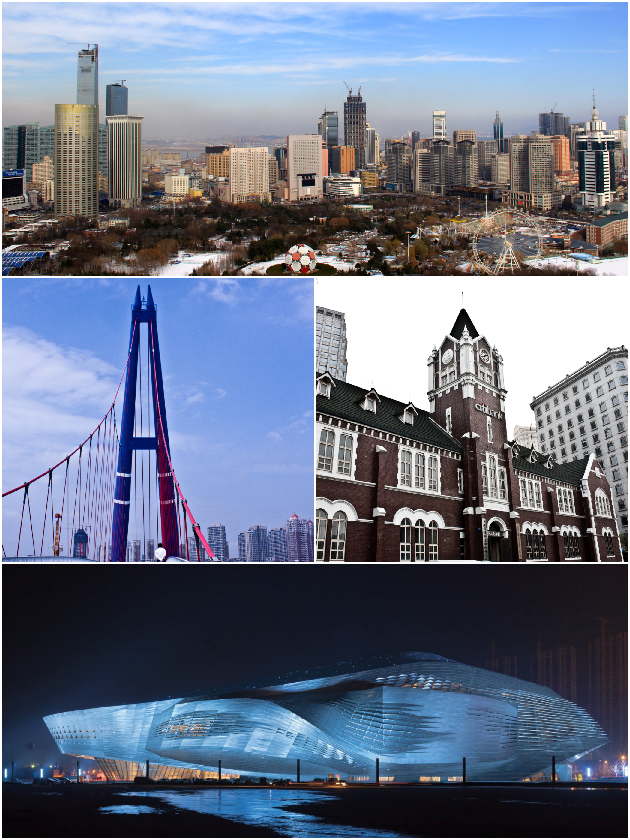 Clockwise from top: Dalian skyline, Citibank at Zhongshan Square, Dalian International Conference Center, Tiaoyue Bridge at Xinghai Square, in Dalian, Liaoning Province, China